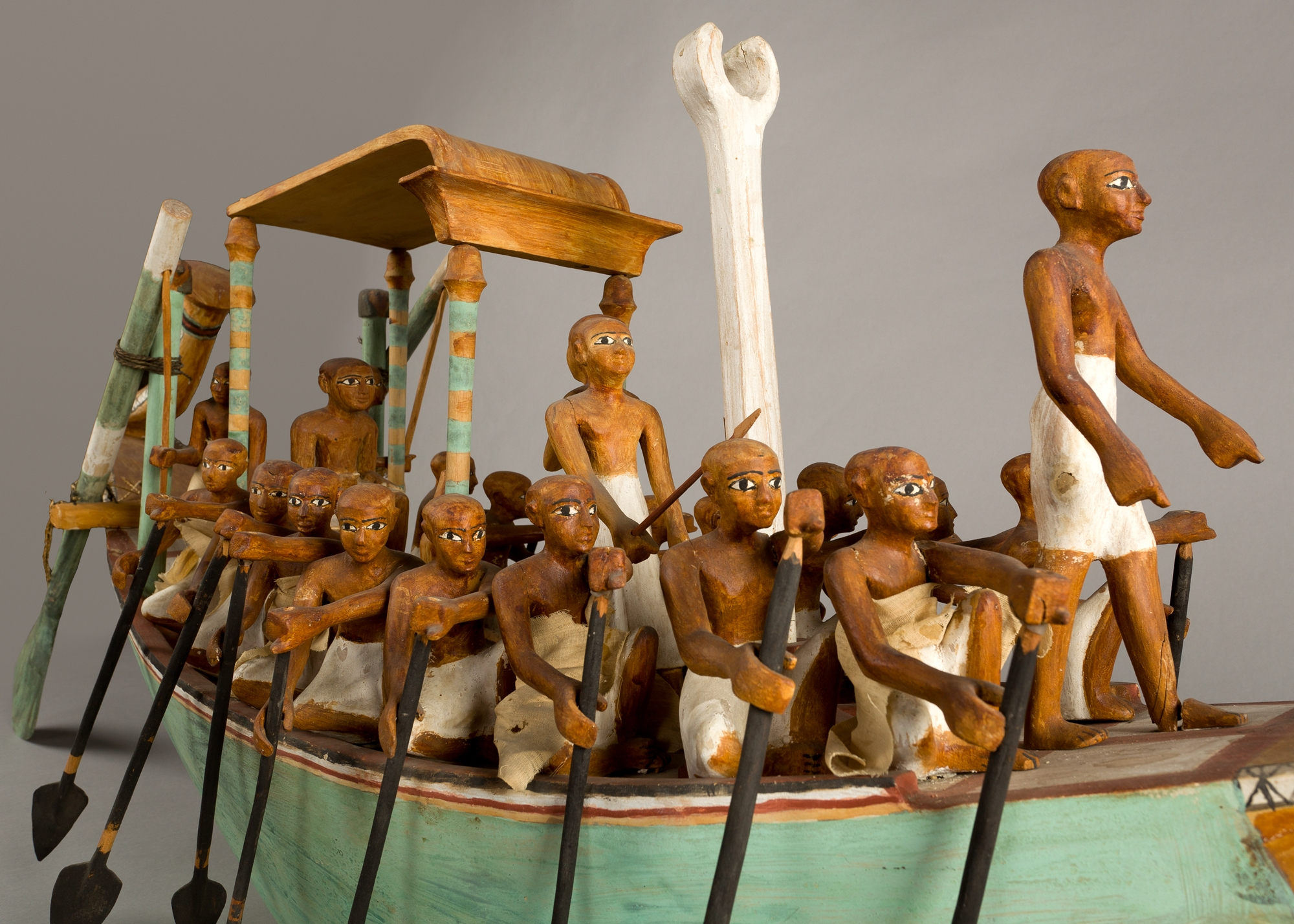 Boat, funerary, Meketre